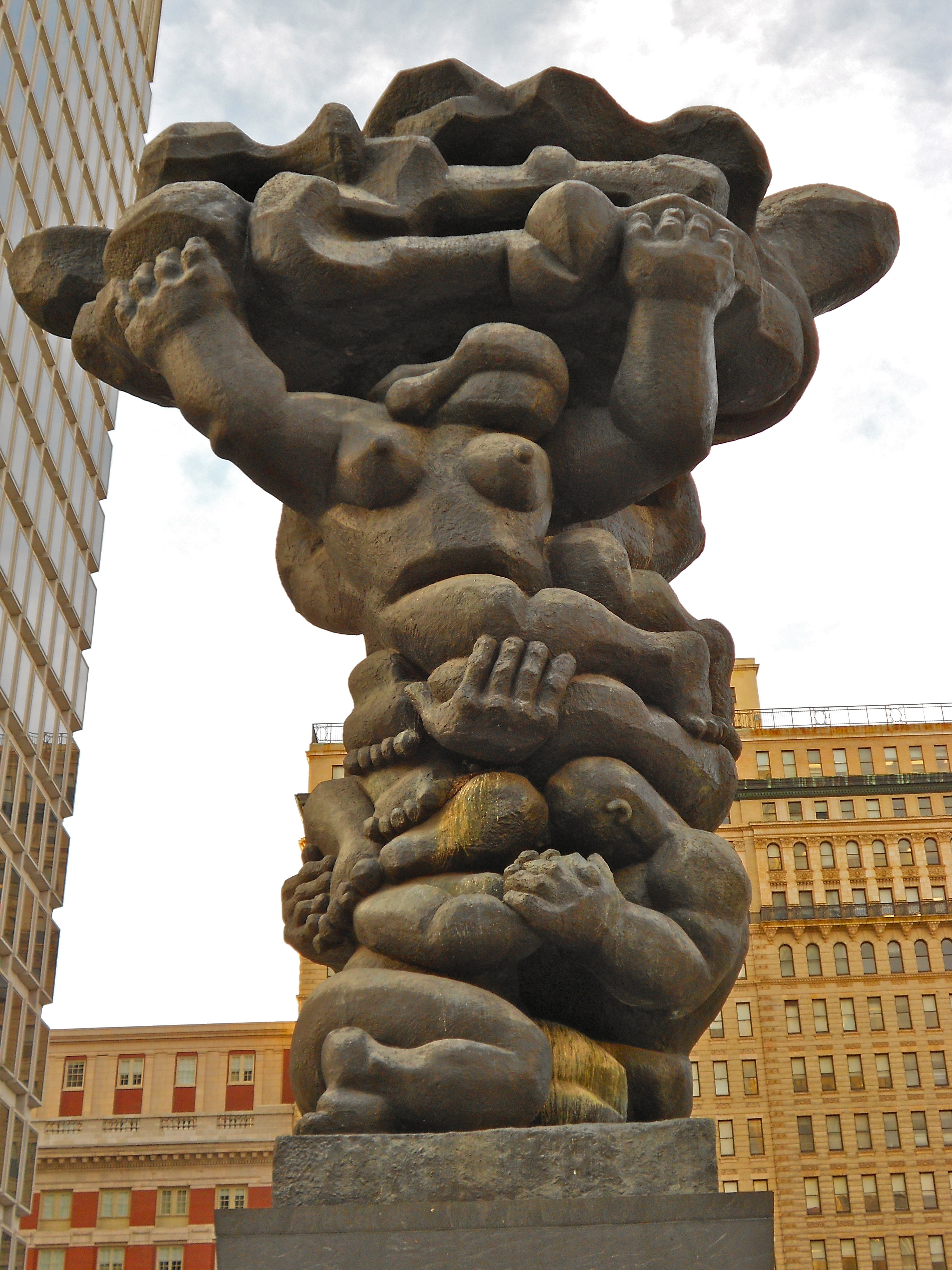 Jacques Lipchitz sculpture with Philadelphia City Hall in the background. Dedicated 1976 as part of the USA bicentenial, with no copyright notice, so now public domain.